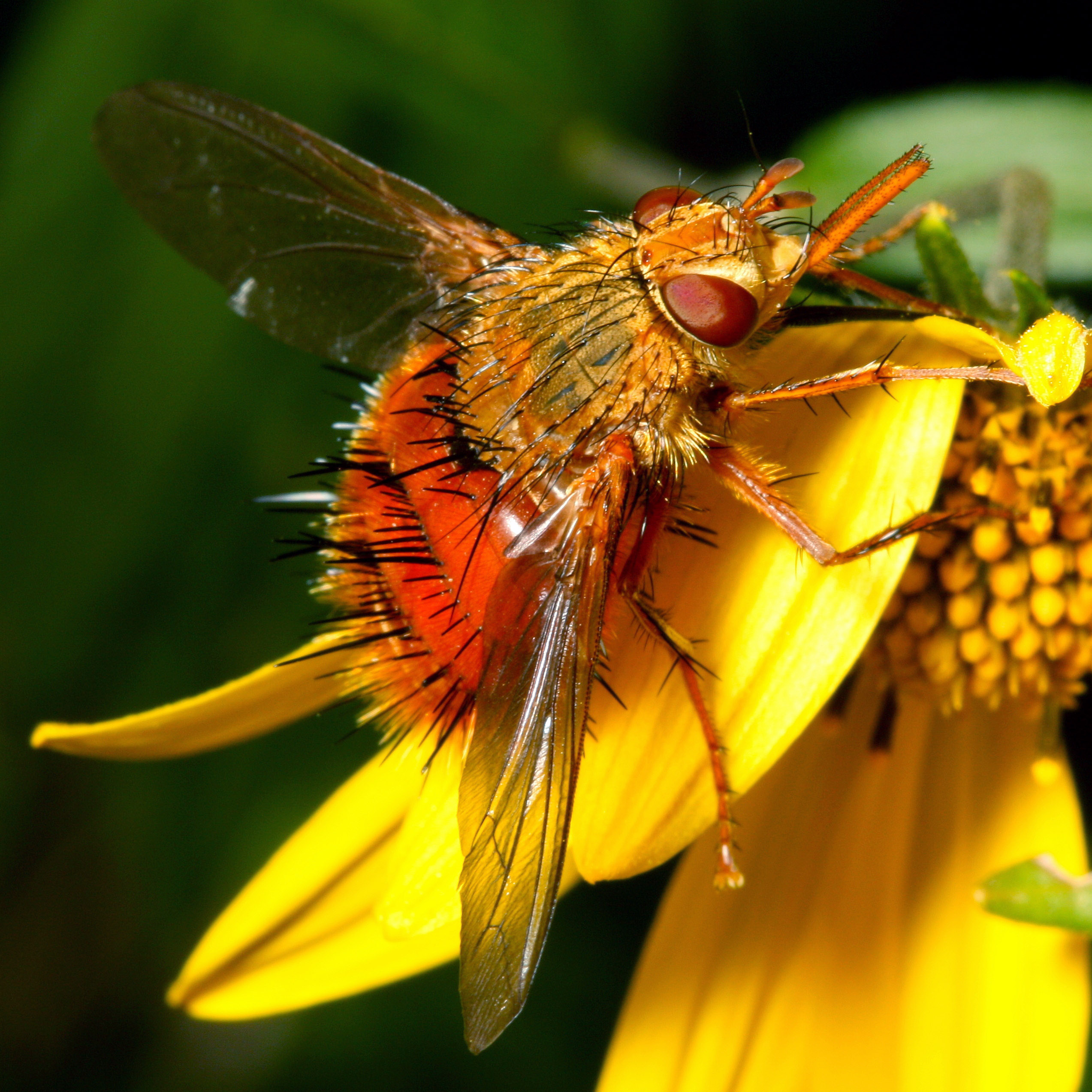 Adejeania vexatrix Family: Tachinidae Live adult female fly photographed at Spring Cave, White River National Forest, near Meeker, Colorado, USA. Elevation: 7590 ft. Size = approx. 18mm, wingspan 20mm